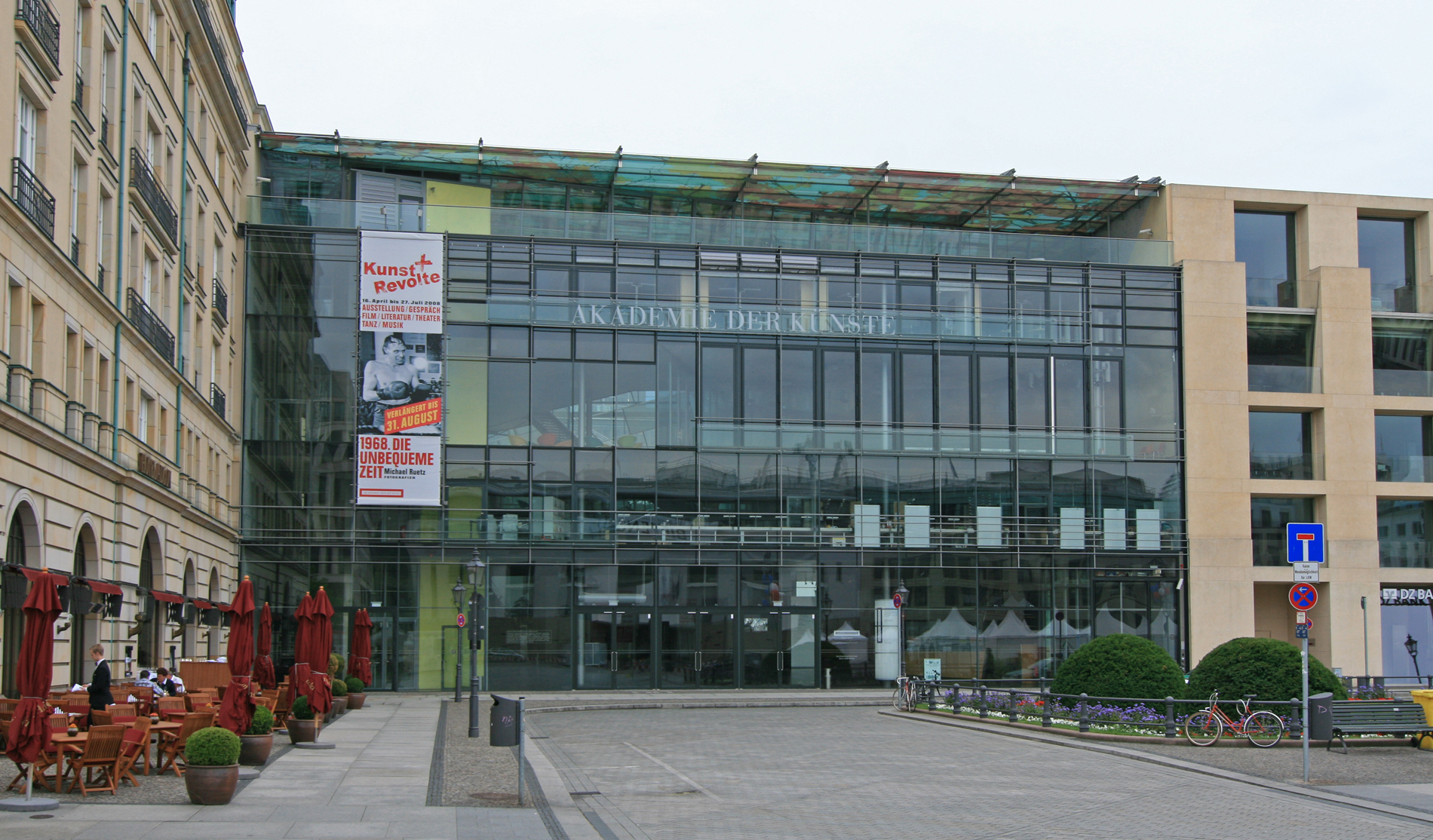 Akademie der Künste, Berlin.